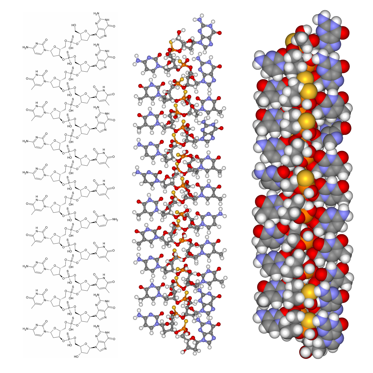 Structural formulae of fomivirsen: Left Skeletal formula, created with ACD/ChemSketch 8.0 and Inkscape. Center Ball-and-stick model, created with Accelrys DS Visualizer Pro 1.6. Right Space-filling model, also created with DS Visualizer Pro 1.6. Image composited with GIMP.